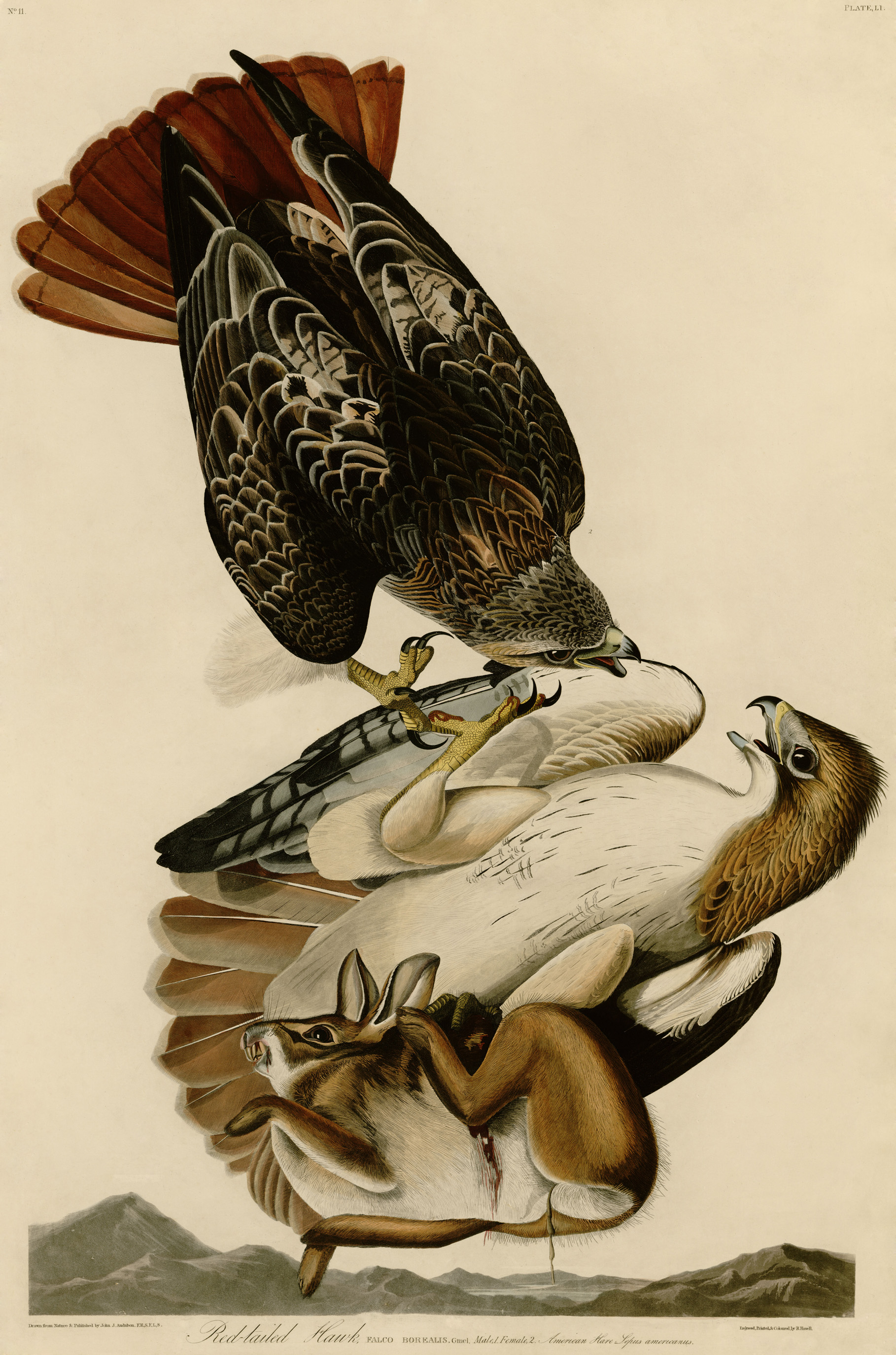 Plate 51 of Birds of America by John James Audubon depicting Red-tailed Hawk.